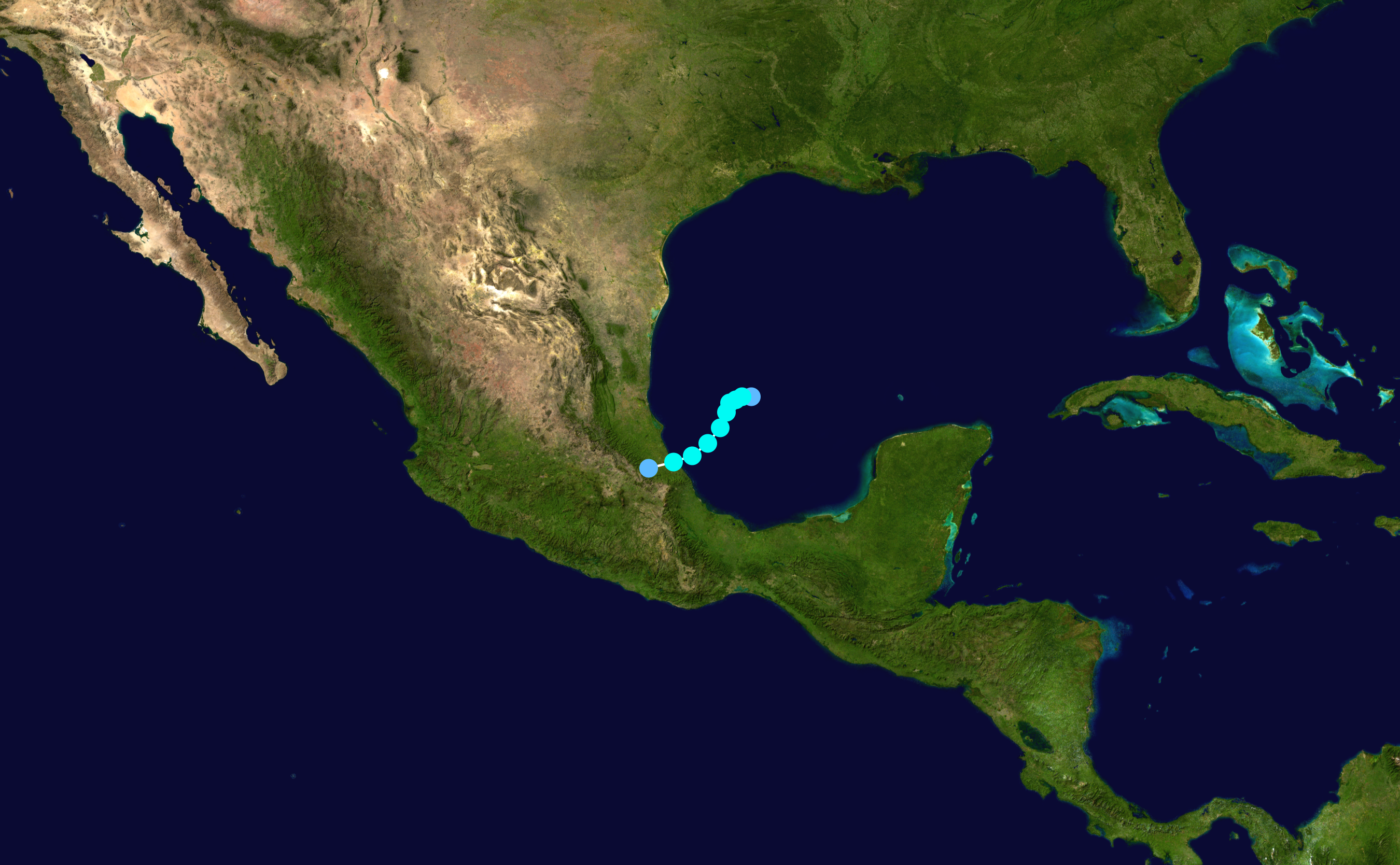 Track map of Tropical Storm Florence of the 1954 Atlantic hurricane season. The points show the location of the storm at 6-hour intervals. The colour represents the storm's maximum sustained wind speeds as classified in the Saffir–Simpson hurricane wind scale (see below), and the shape of the data points represent the nature of the storm, according to the legend below. Saffir–Simpson hurricane wind scale Tropical depression≤38 mph≤62 km/h Category 3111–129 mph178–208 km/h Tropical storm39–73 mph63–118 km/h Category 4130–156 mph209–251 km/h Category 174–95 mph119–153 km/h Category 5≥157 mph≥252 km/h Category 296–110 mph154–177 km/h Unknown Storm typeTropical cycloneSubtropical cycloneExtratropical cyclone / Remnant low / Tropical disturbance